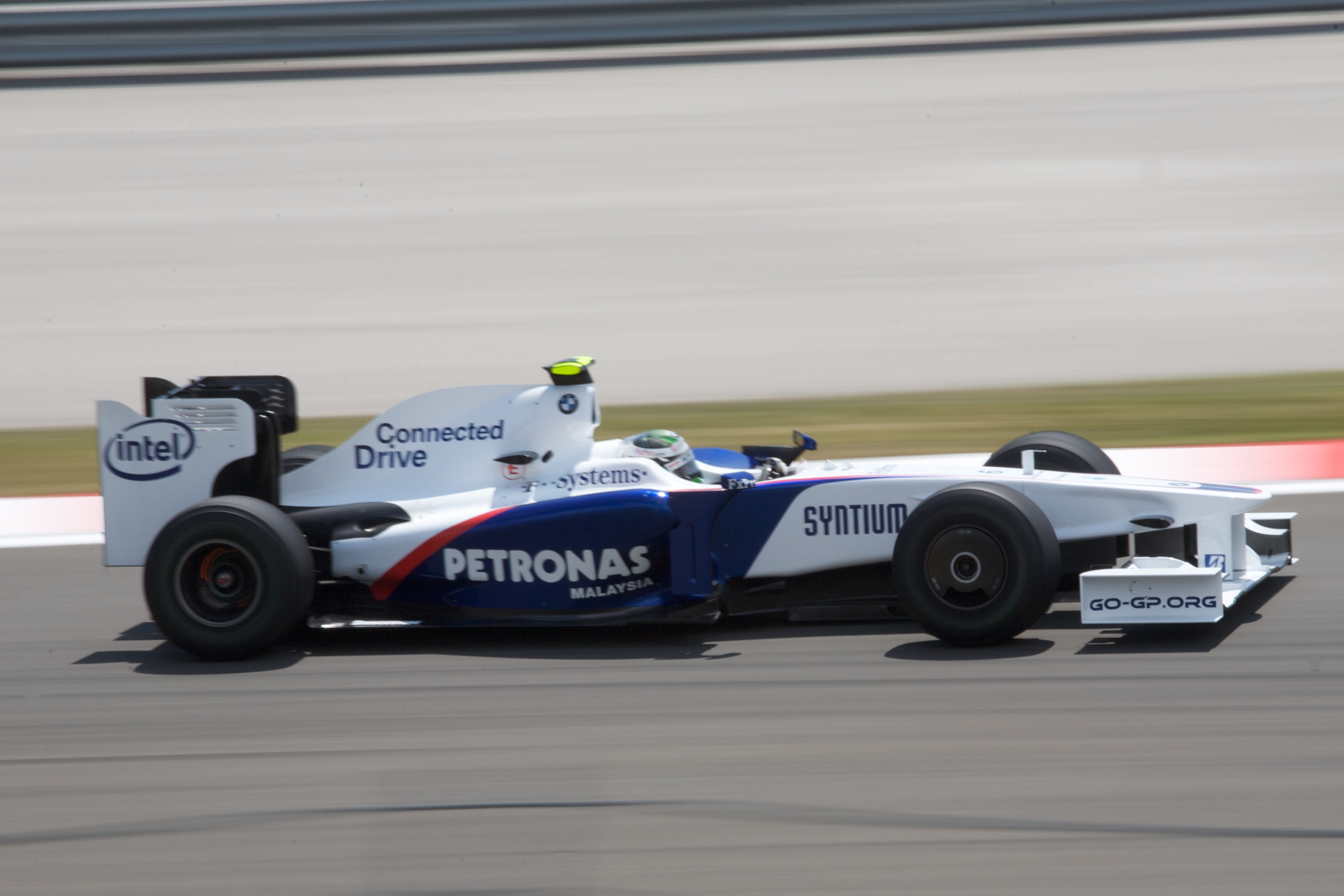 Nick Heidfeld driving for BMW Sauber at the 2009 Turkish Grand Prix.